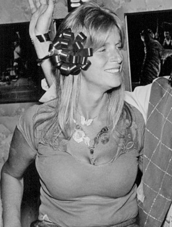 Linda McCartney at the Los Angeles Forum Club during the 1976 Wings Over America tour